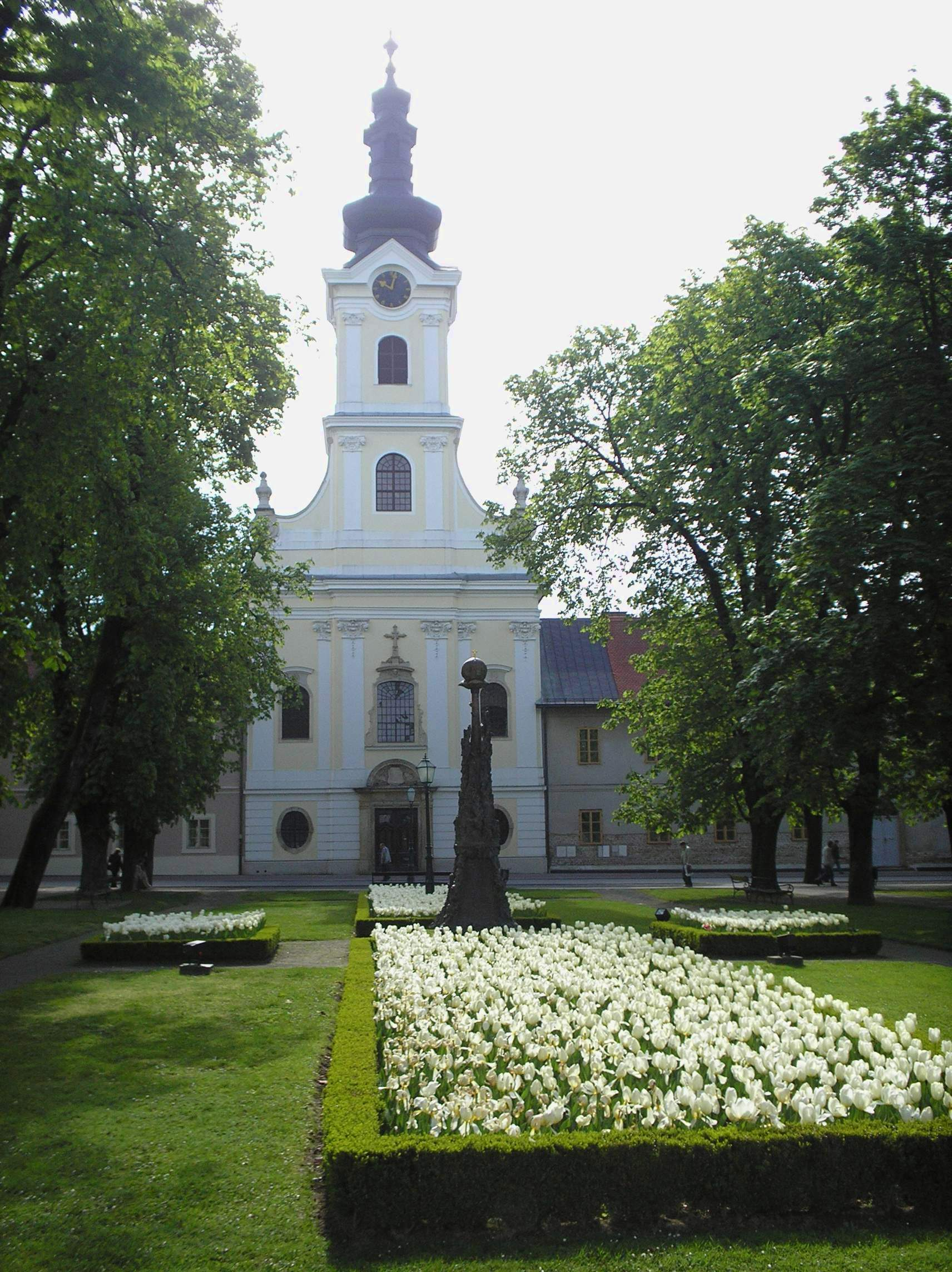 The church of Saint Theresa of Ávila, Bjelovar, CroatiaHrvatski: Kasnobarokna crkva sv. Terezije Avilske građena od 1756. do 1771. i gradski park